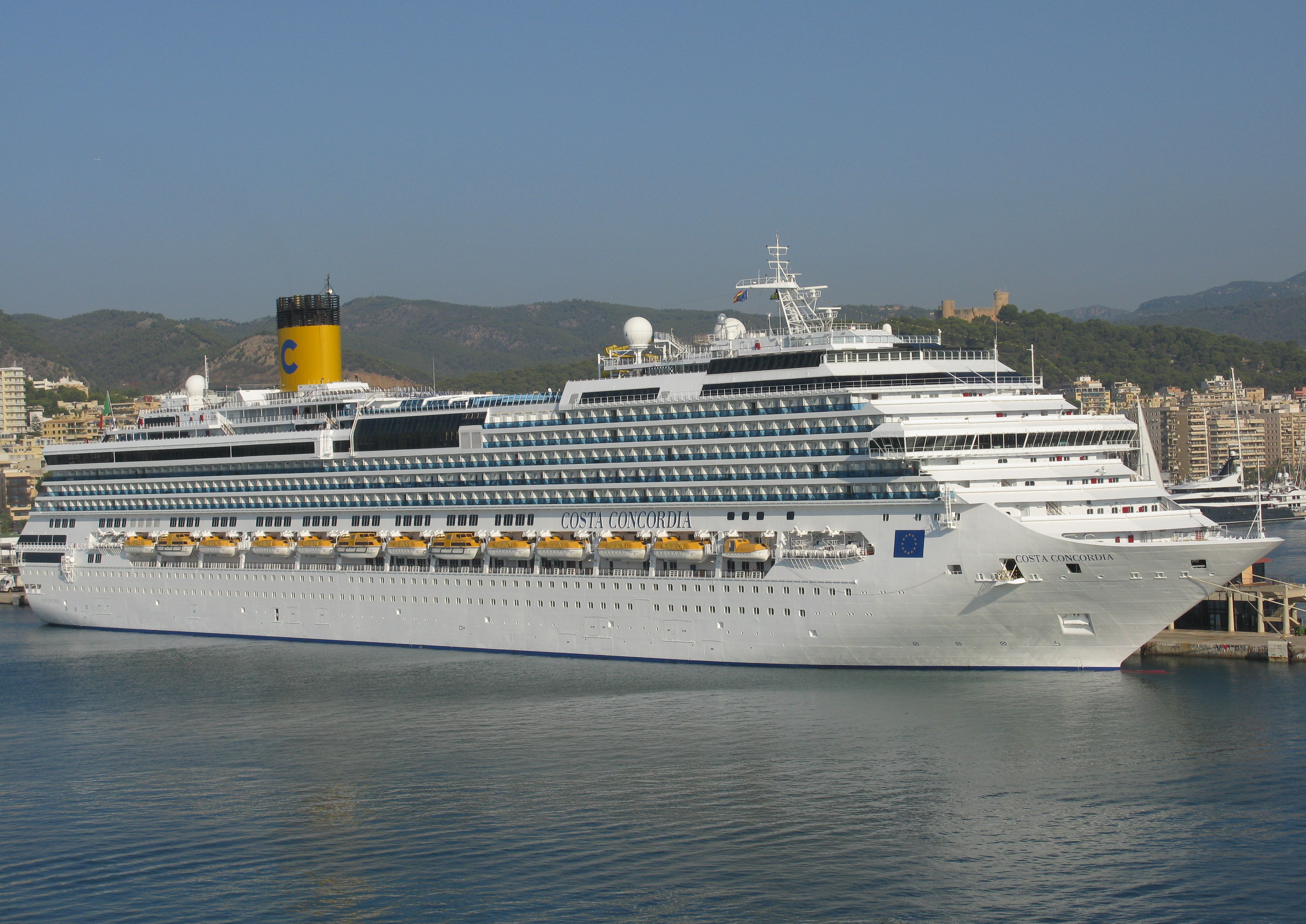 Costa Concordia moored in the port of Palma, Majorca, Spain.